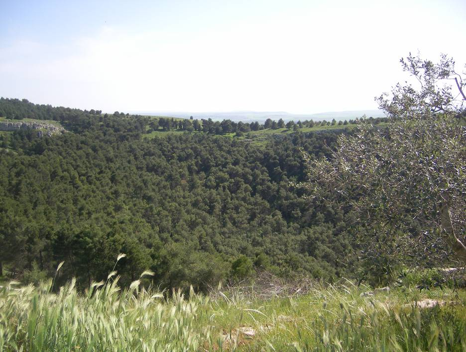 Pulicchio di Gravina (a doline located in the Murge plateau, Italy) - View 1